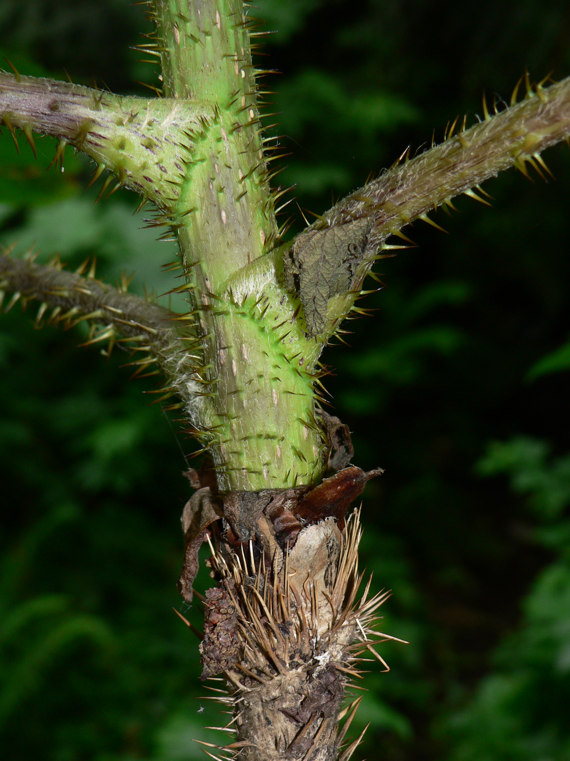 Devilsclub